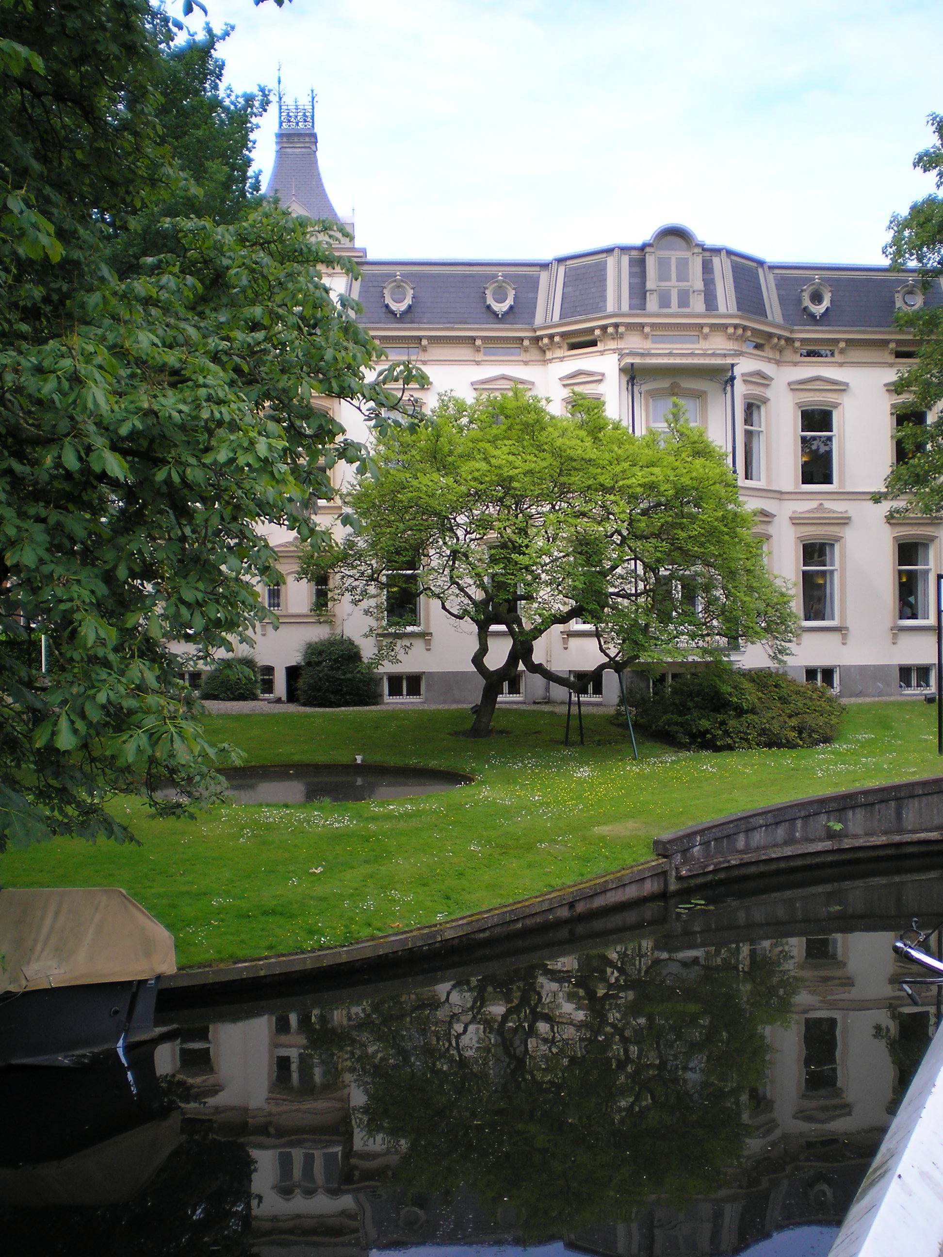 Oorsprongpark Park in the foreground the Biltsche Grift of Utrecht in the Netherlands